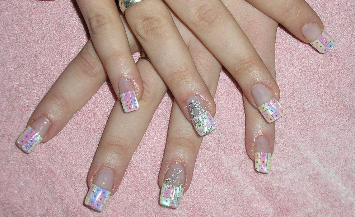 Artificial Nails